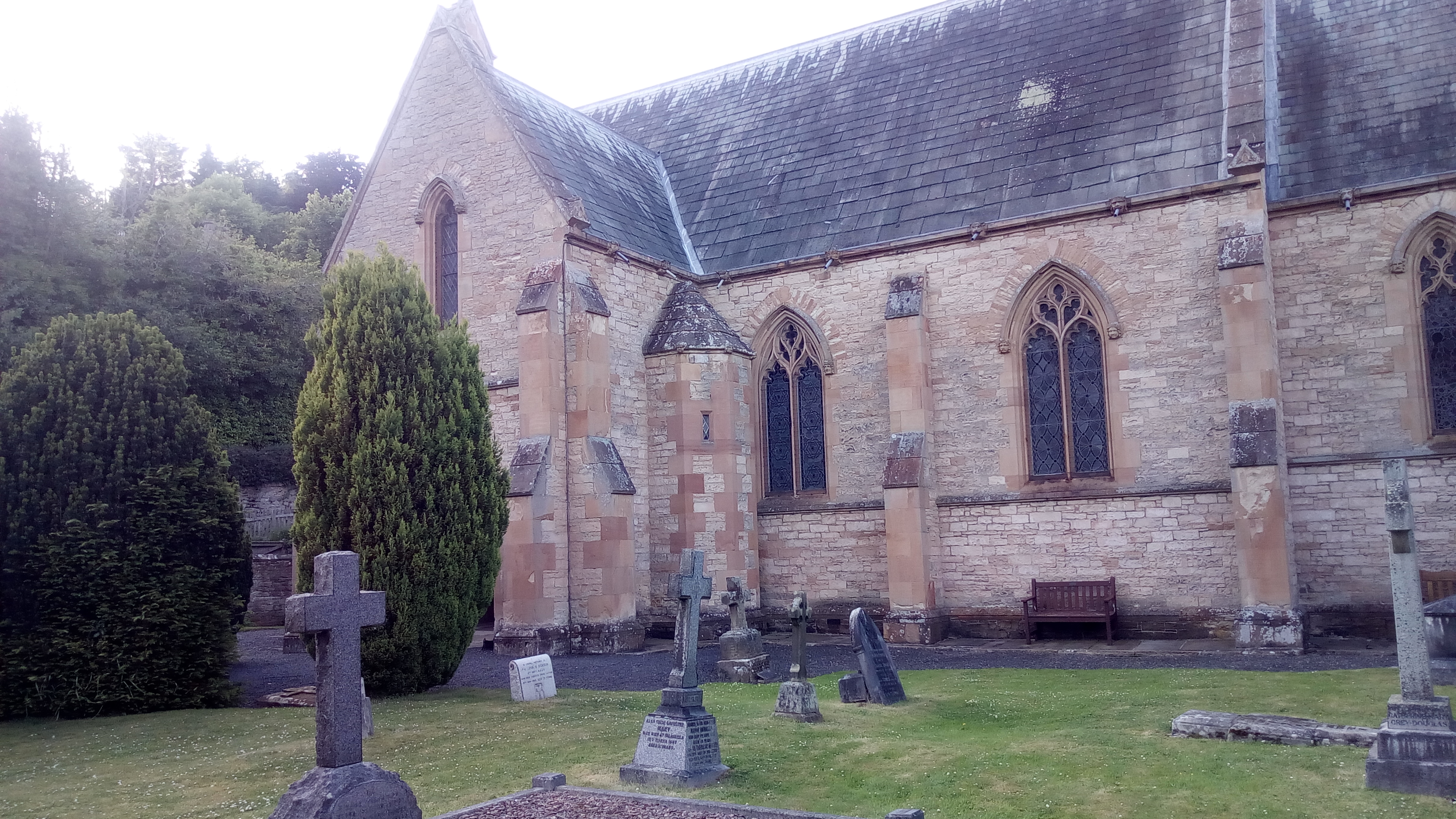 near the grammar school in Jedburgh